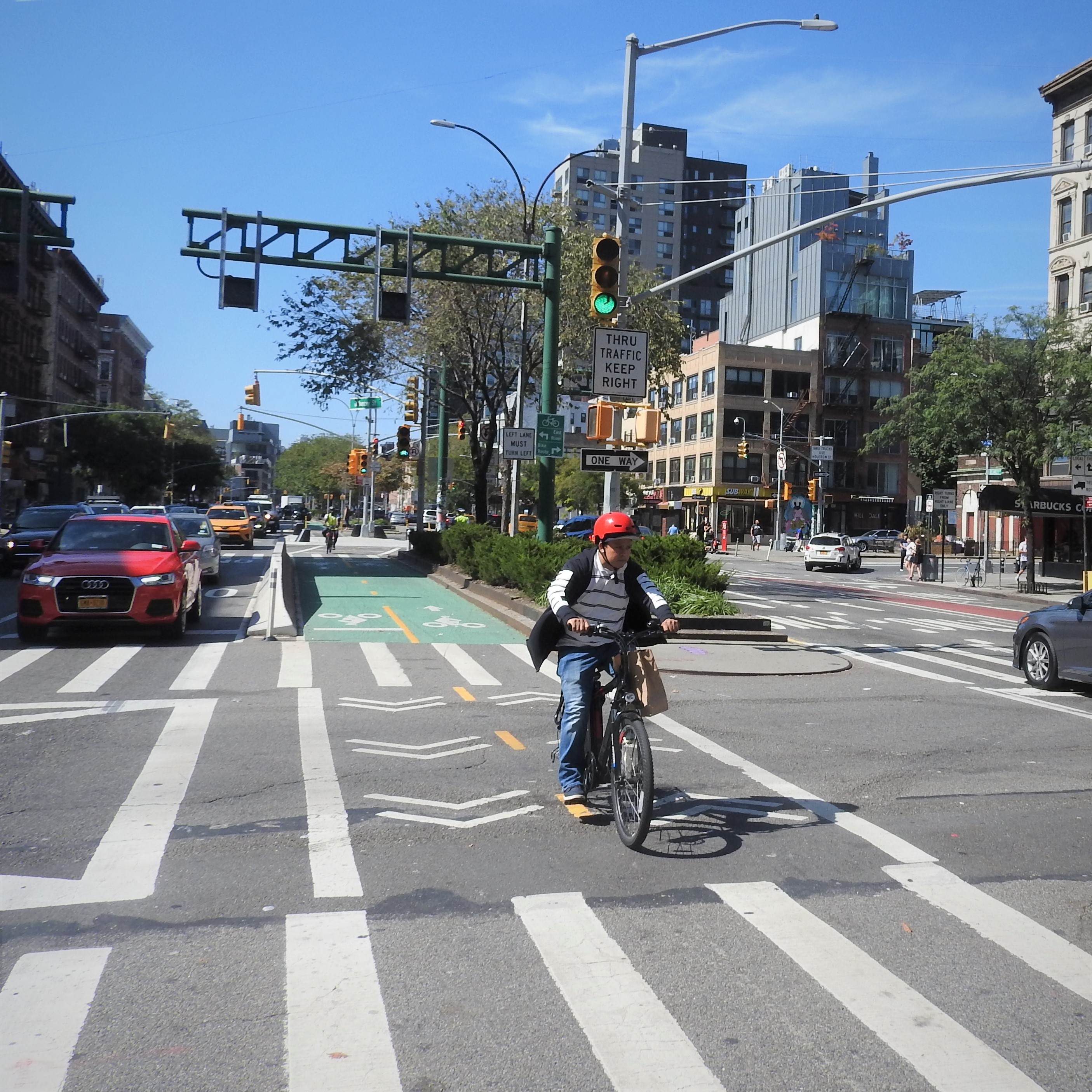 Looking west across Orchard Street